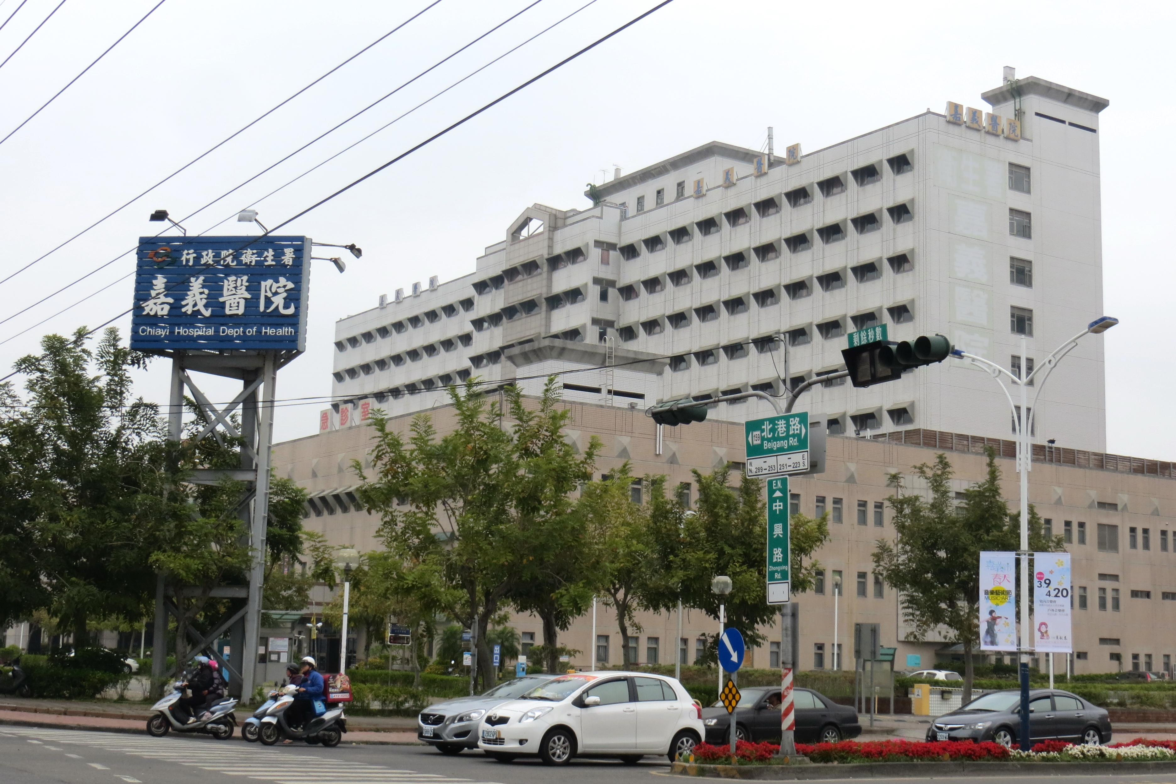 Chia-Yi Hospital, Department of Health, Executive Yuan.